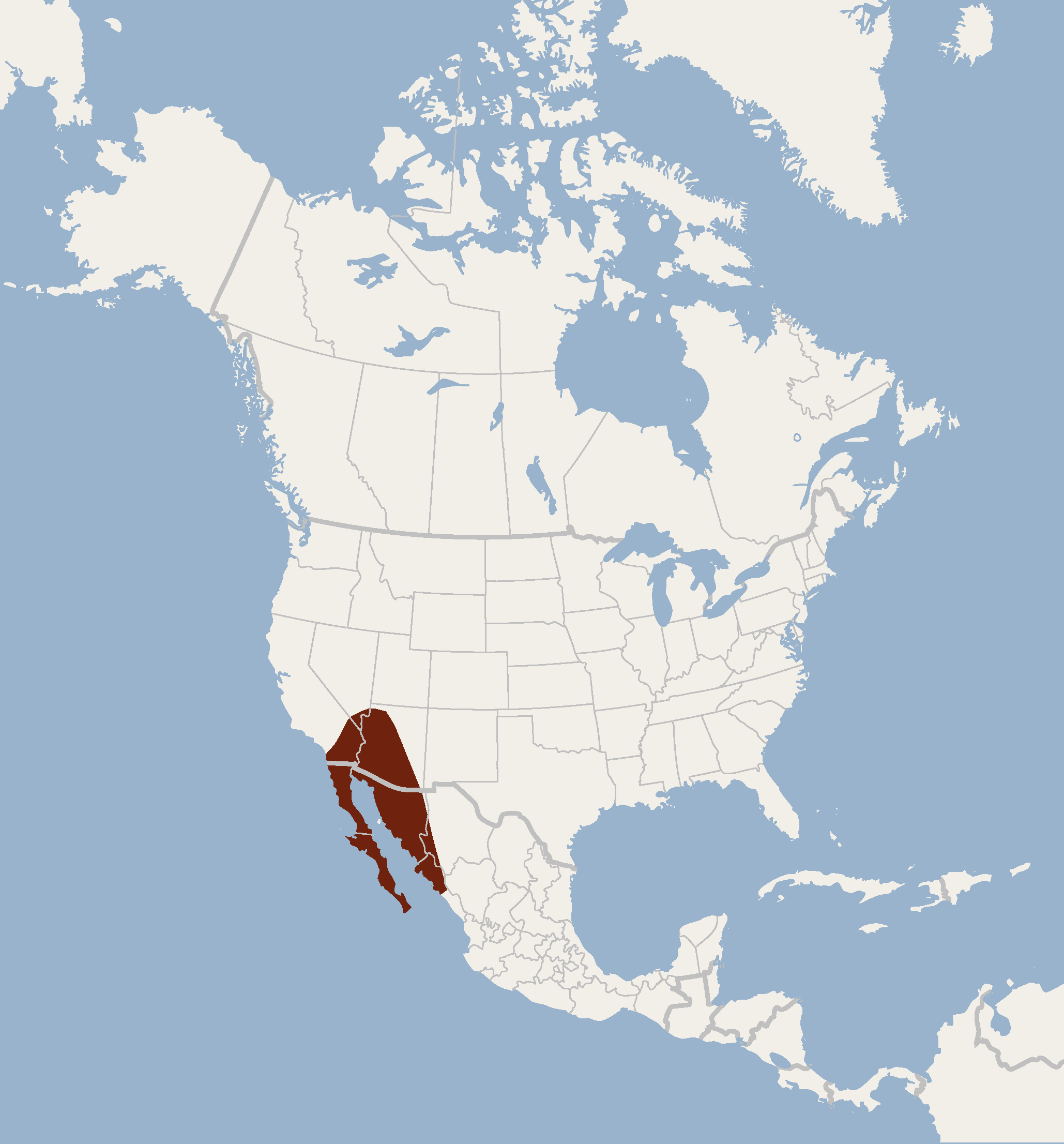 Geographical distribution of Macrotus californicus according to Keys & Wilson, 2009